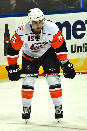 Jeff Tambellini stretching on the ice.